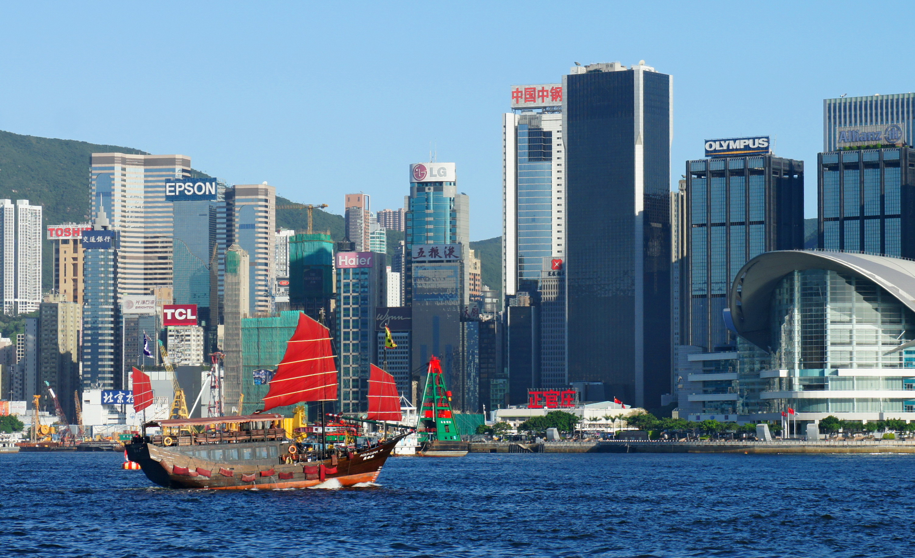 Aqua Luna, a Chinese Junk in Victoria Harbour, Hong Kong.